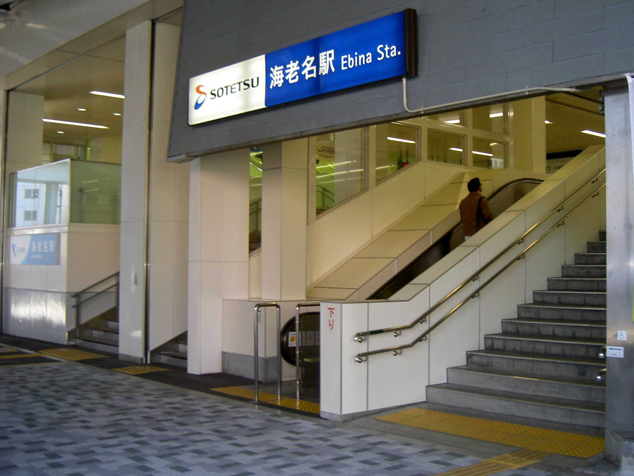 Ebina station, Sotetsu line